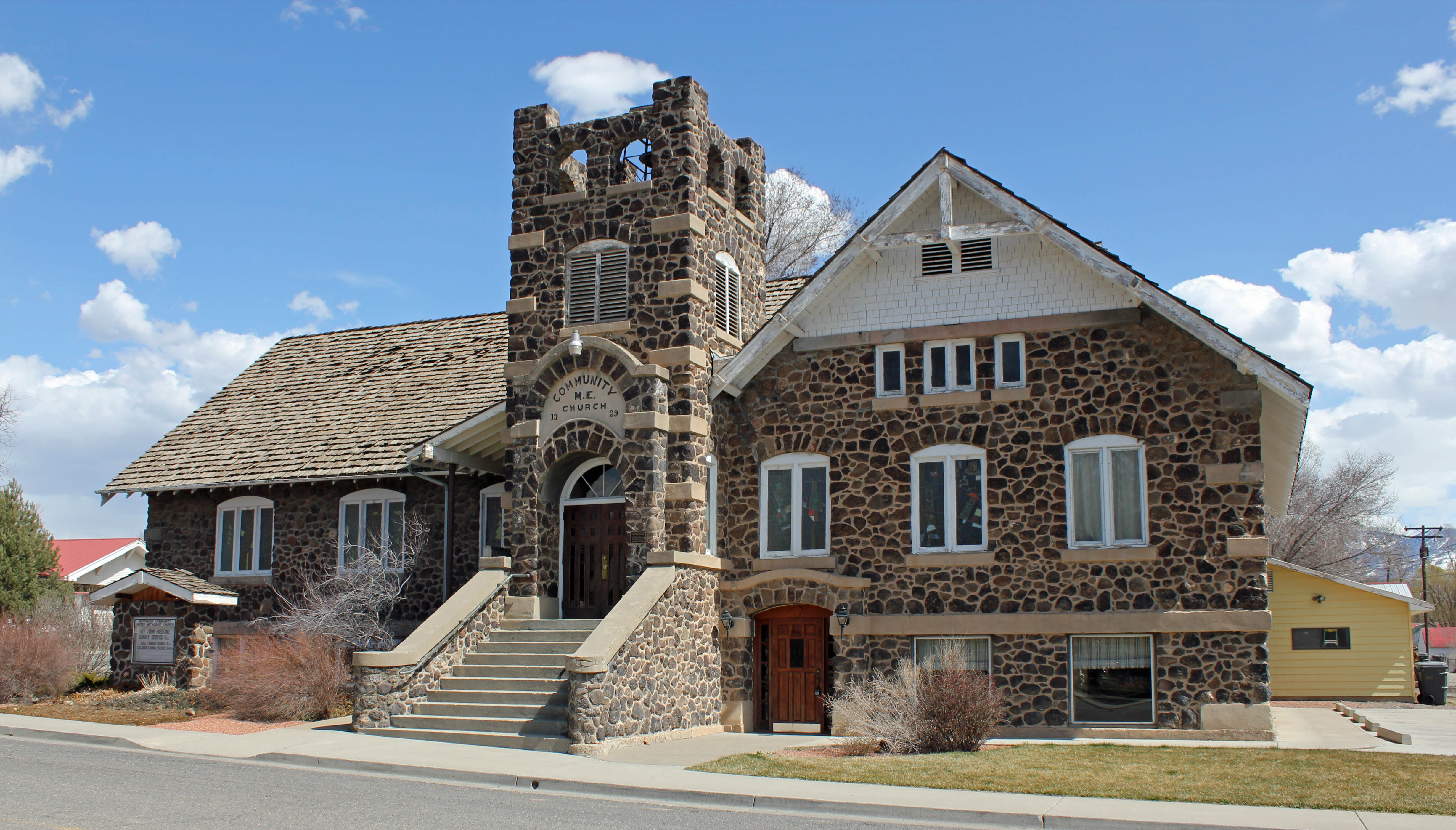 The Hotchkiss Methodist Episcopal Church, located at 285 North 2nd Street in Hotchkiss, Colorado. The property is listed on the National Register of Historic Places.